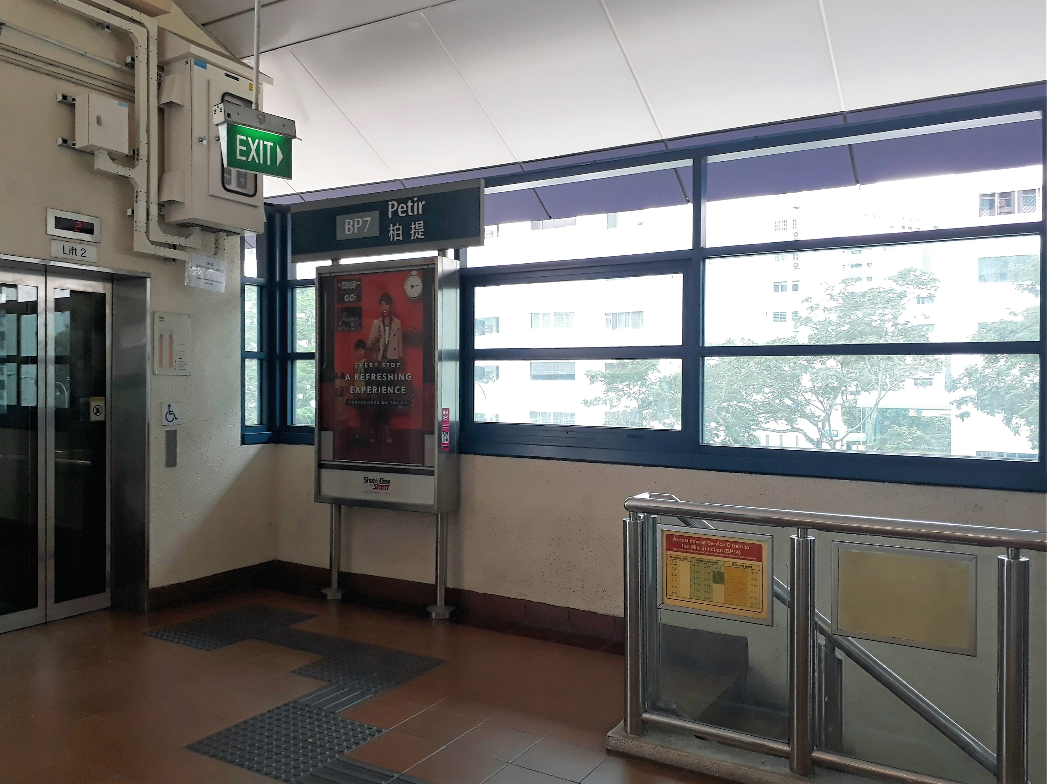 A lift at Petir LRT